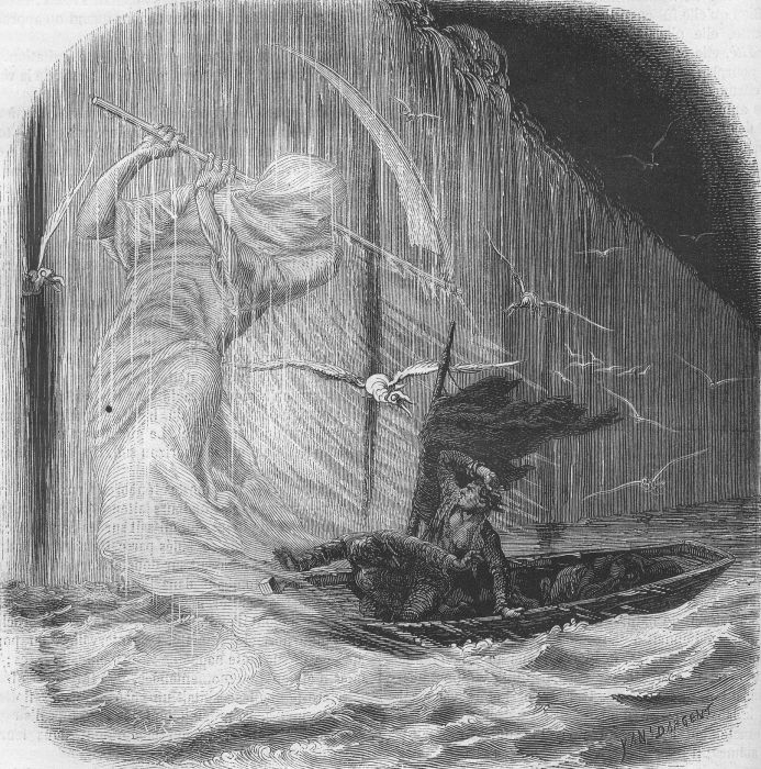 An illustration from Jules Verne's essay "Edgard Poë et ses oeuvres" (Edgar Poe and his Works,1862) drawn by Frederic Lix or Yan' Dargent.